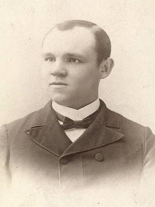 Photo of James E. Talmage, a member of the Quorum of the Twelve Apostles of The Church of Jesus Christ of Latter-day Saints.